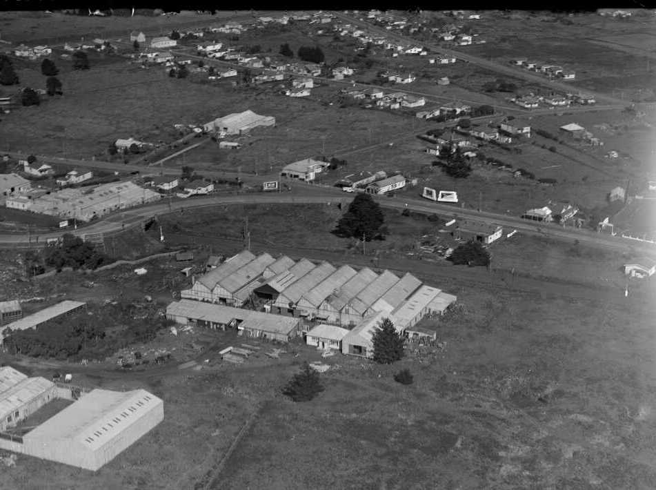 Aerial view of the industrial site of Booth Macdonald & Company Ltd at Penrose, Auckland, surrounded by houses and other factory buildings. Photograph taken by Whites Aviation. from above Cain Road